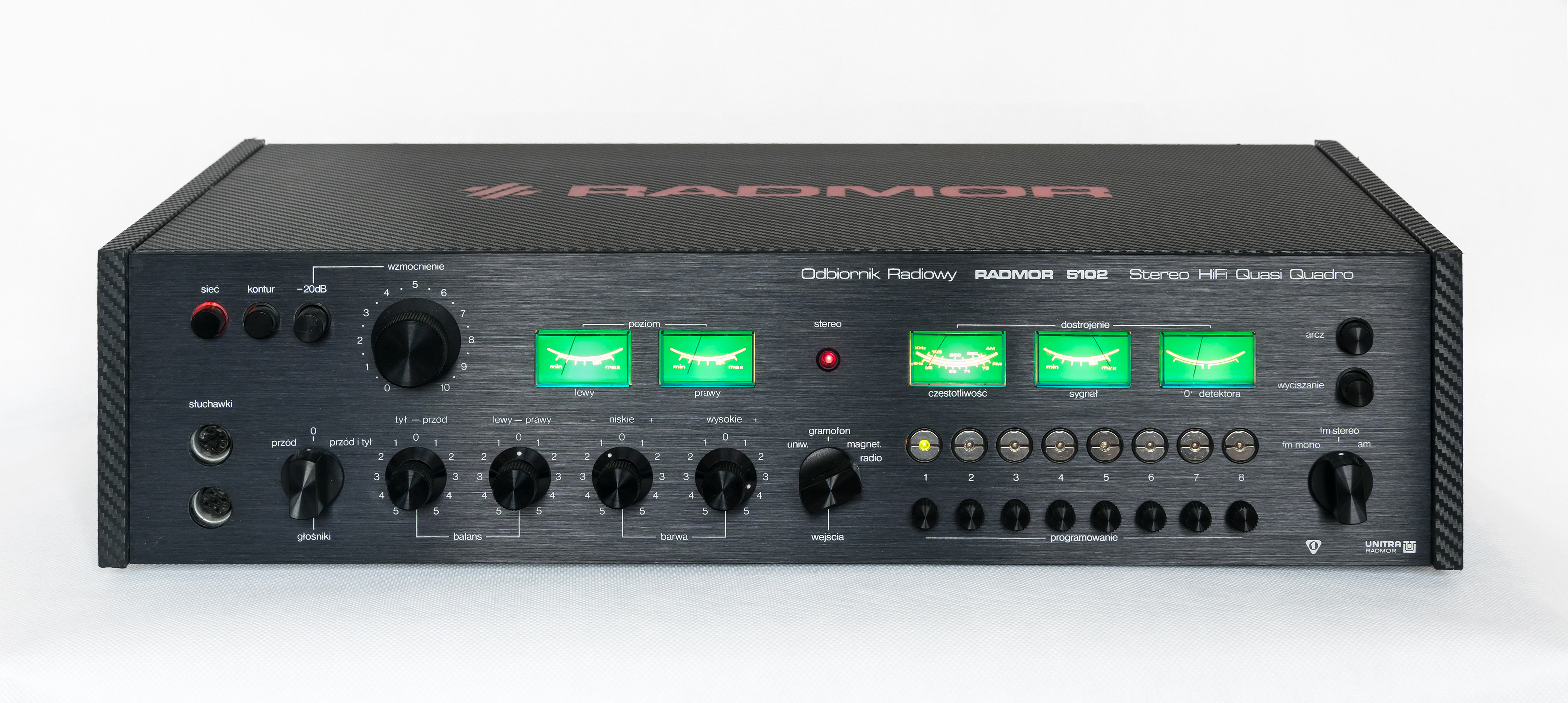 Radmor 5102 stereo receiver